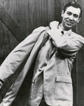 Photograph of Mister Rogers in the late 1960s